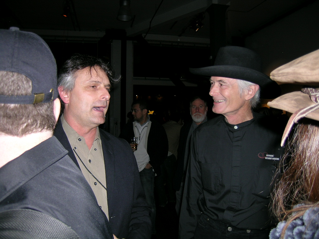 John Law, left, and another founder of Burning Man, Michael Mikel